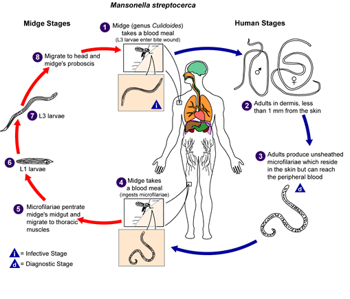 Filariasis Life cycle of Mansonella streptocerca During a blood meal, an infected midge (genus Culicoides) introduces third-stage filarial larvae onto the skin of the human host, where they penetrate into the bite wound. They develop into adults that reside in the dermis, most commonly less than 1 mm from the skin surface. The females measure approximately 27 mm in length. Their diameter is 50 μm at the level of the vulva (anteriorly) and ovaries (near the posterior end), and up to 85 μm at the mid-body. Males measure 50 μm in diameter. Adults produce unsheathed and non-periodic microfilariae, measuring 180 to 240 μm by 3 to 5 μm, which reside in the skin but can also reach the peripheral blood. A midge ingests the microfilariae during a blood meal. After ingestion, the microfilariae migrate from the midge's midgut through the hemocoel to the thoracic muscles. There the microfilariae develop into first-stage larvae and subsequently into third-stage larvae. The third-stage larvae migrate to the midge's proboscis and can infect another human when the midge takes another blood meal.